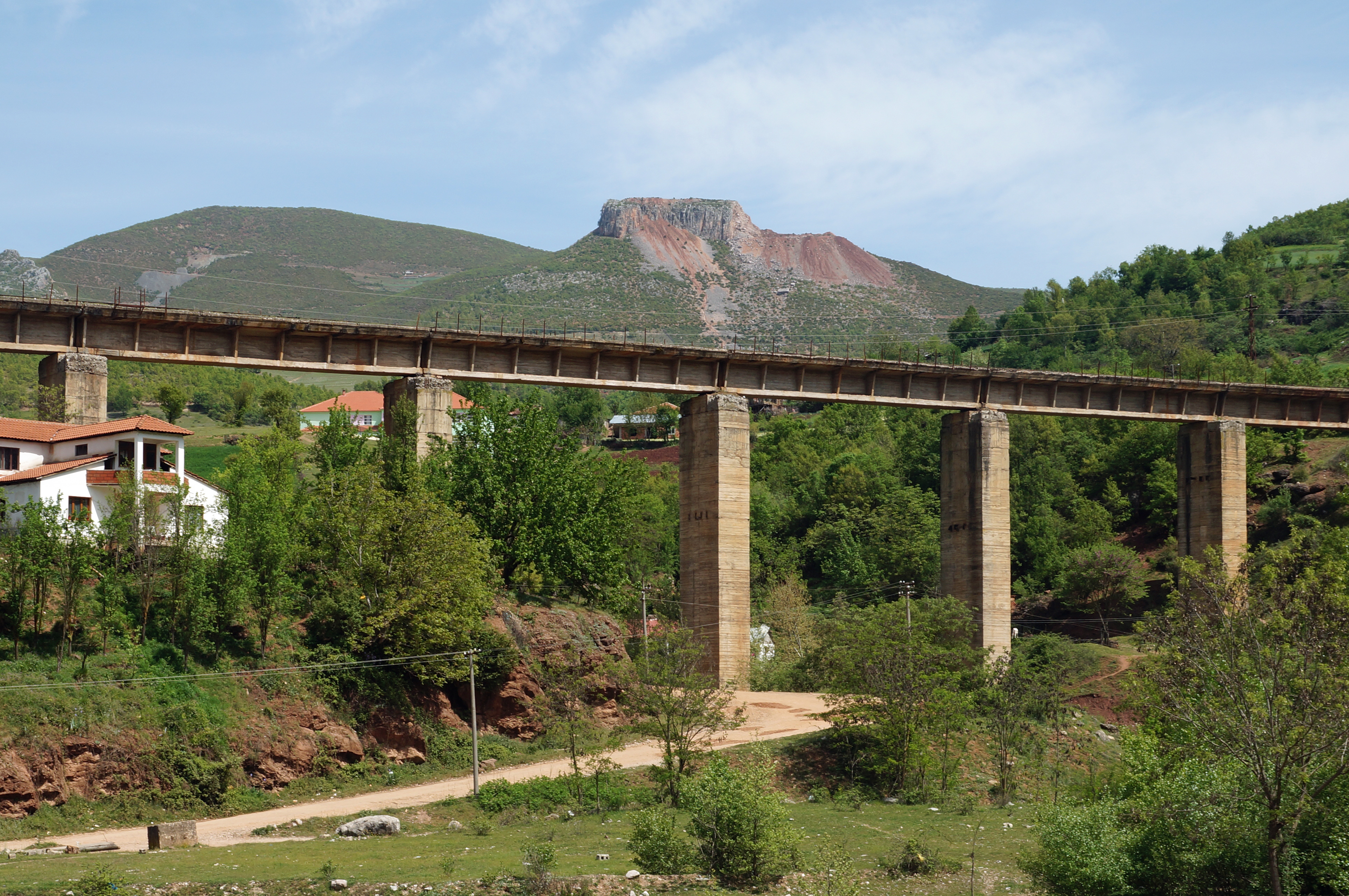 Sofra e Skënderbeut in Librazhd area of Albania and railway line Librazhd-Pogradec